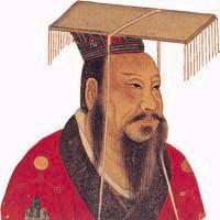 Ming Dynasty portrait of Emperor Guangwu of Han.